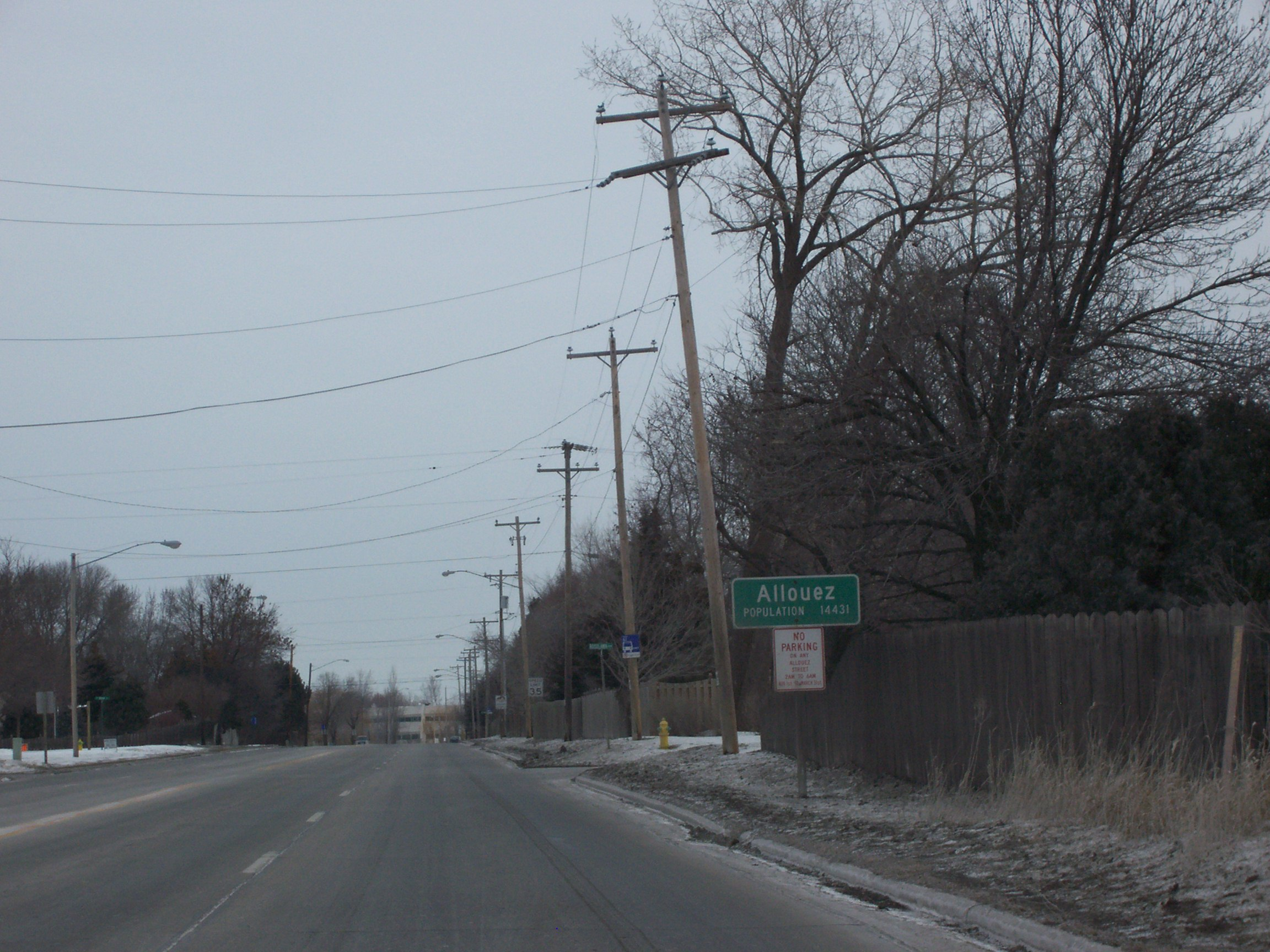 The Wisconsin sign in Allouez, Wisconsin, USA. Looking north on Wisconsin Highway 57. Taken February 11, 2007 by myself.